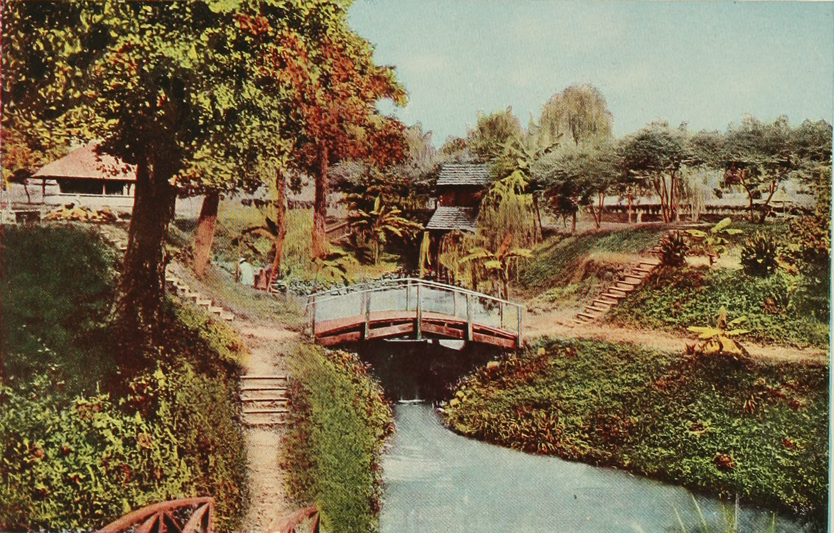 "Old Mill," an area in Sam Houston Park in 1913 - From "Houston: Where Seventeen Railroads Meet the Sea" Page 16/40 "Houston Is Famous for Her Fine Park System. "Old Mill" Is a Cozy Nook in the Semi-Tropical Sam Houston (City Park)."